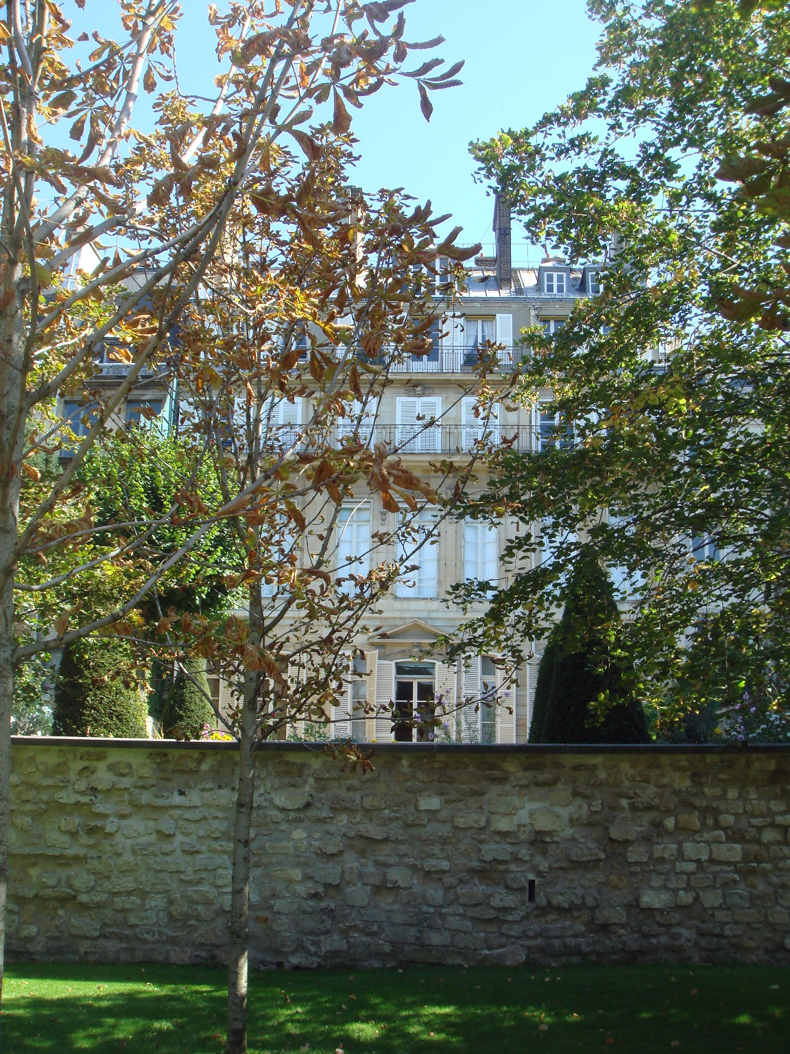 House_of_Chateaubriand 120 Rue du Bac